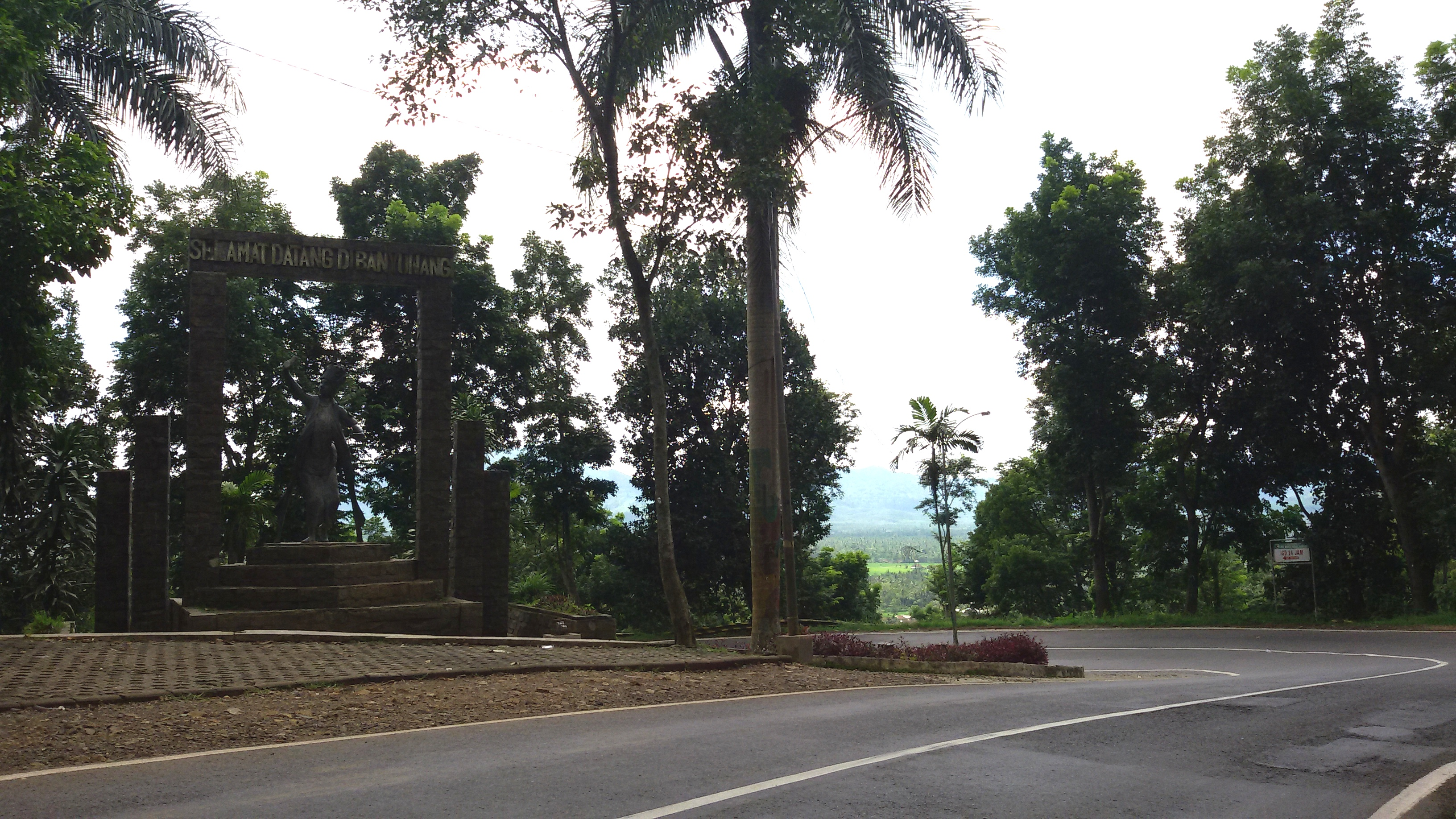 Welcome statue on Gumitir represent Gandrung dancer